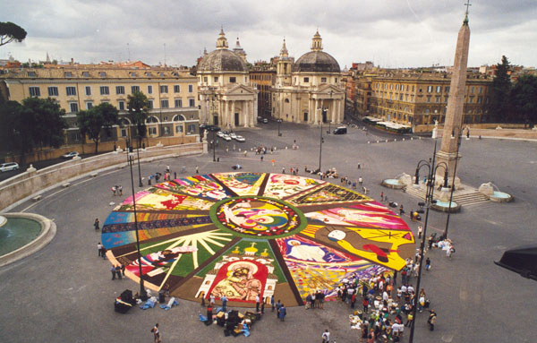 Infiorata in Rome